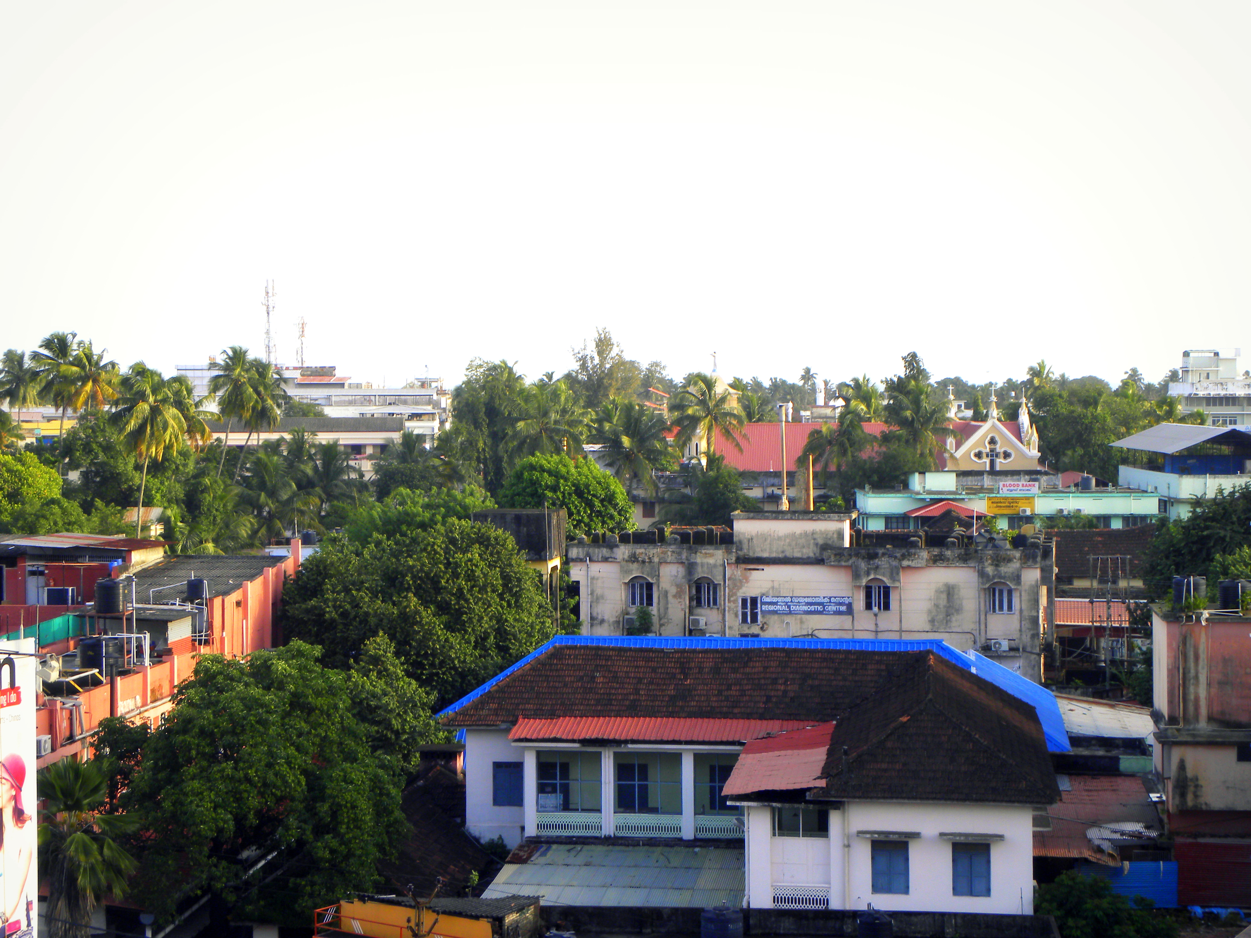 Arial view of one of the thickly populated and urbanized areas of Kollam city - View from RP Mall, Kollam